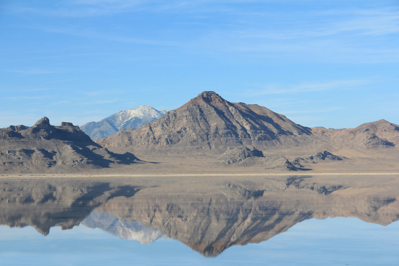 Bonneville Salt Flats as seen off of interstate 80 westbound during the winter.